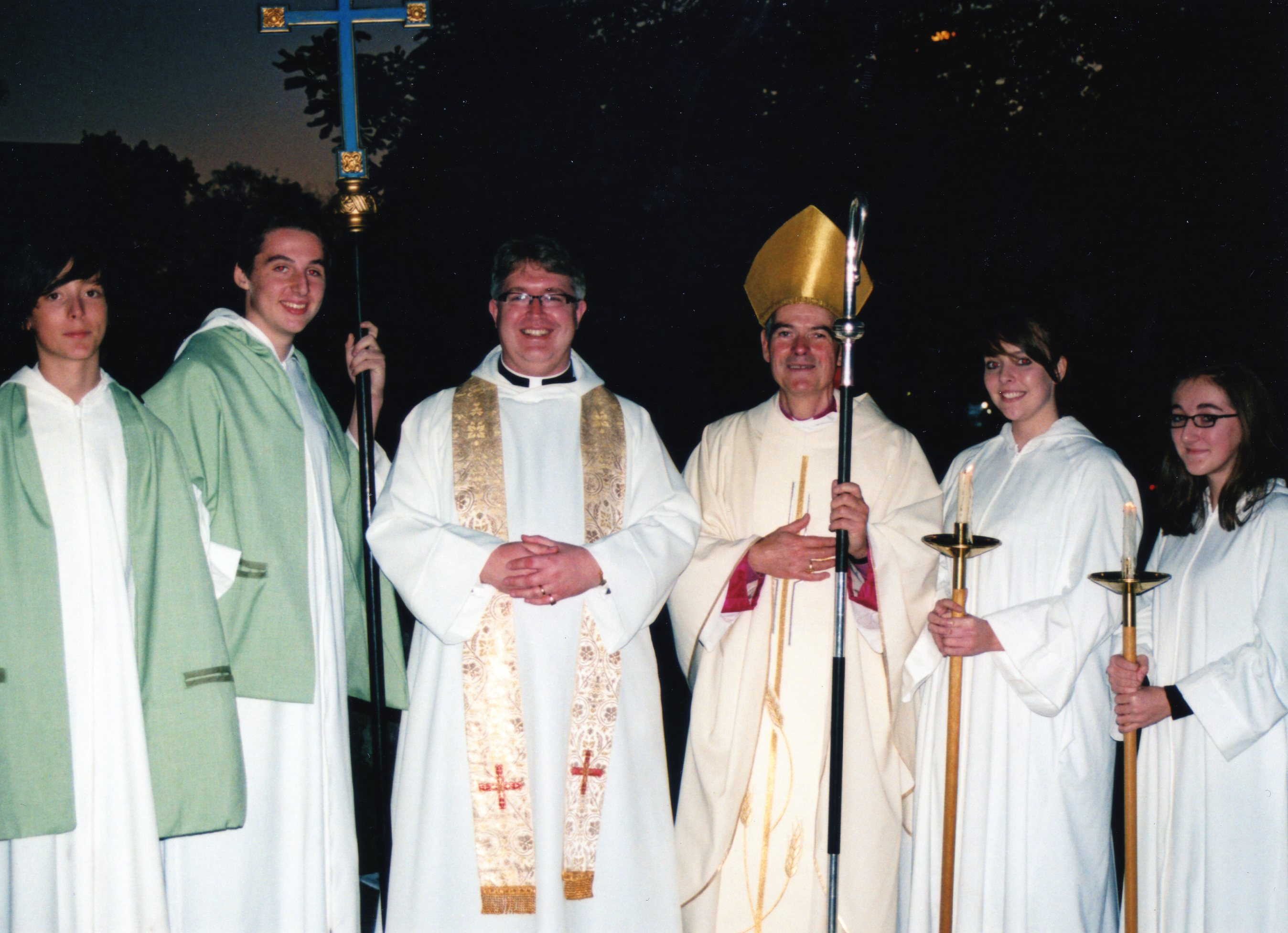 The Anglican Bishop of Edmonton (London, England) with a priest, two acolytes, and two vimpas.